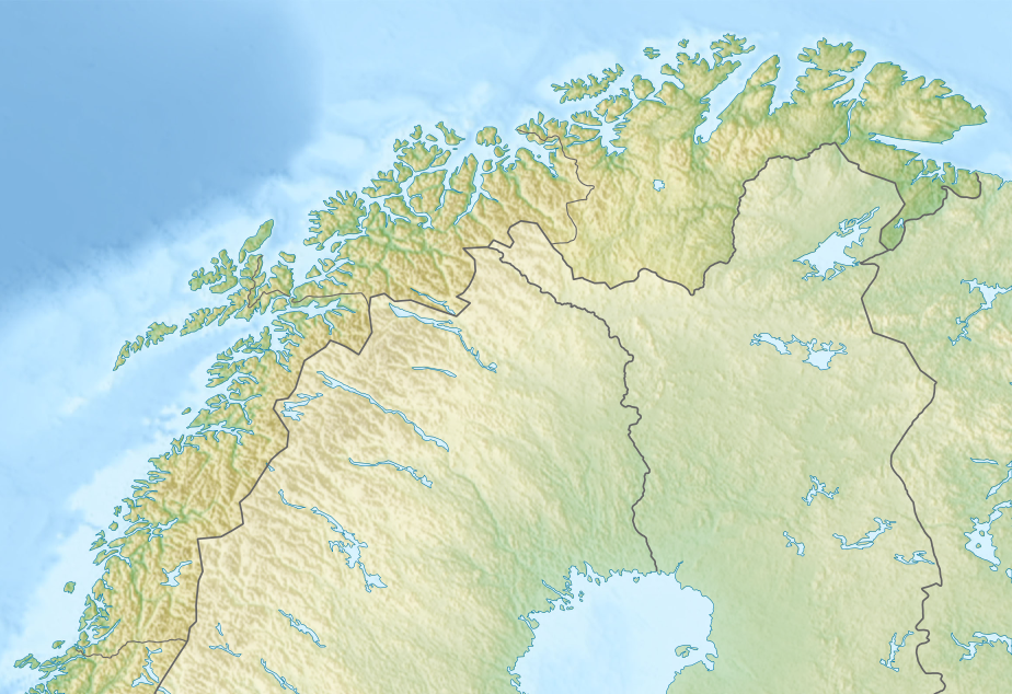 Relief Map of North Norway Equirectangular projection, N/S stretching 210 %. Geographic limits of the map: N: 71.5° N S: 64.24° N W: 10.27° E E: 31.6° E